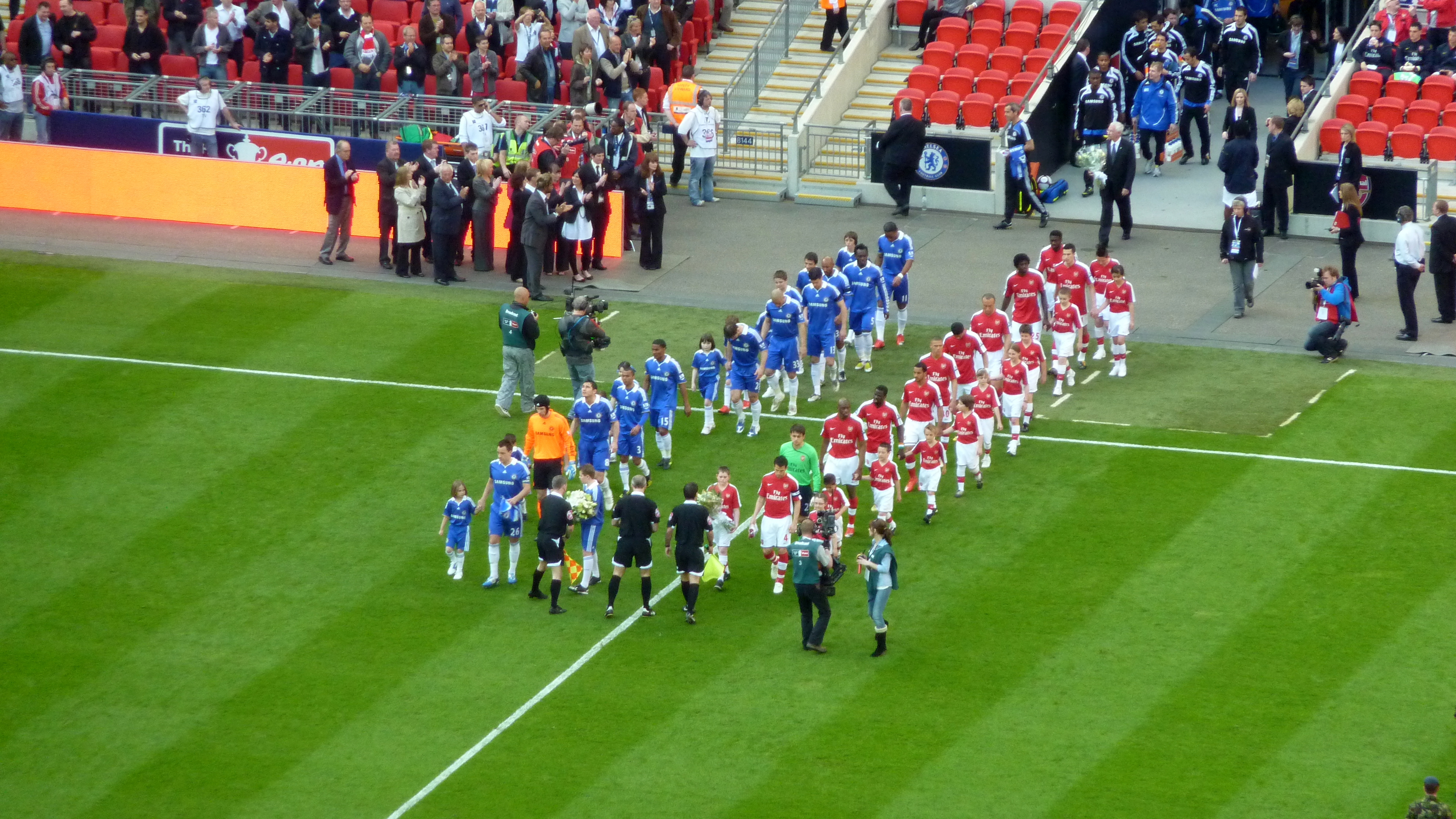 Arsenal vs Chelsea. FA Cup Semifinals.